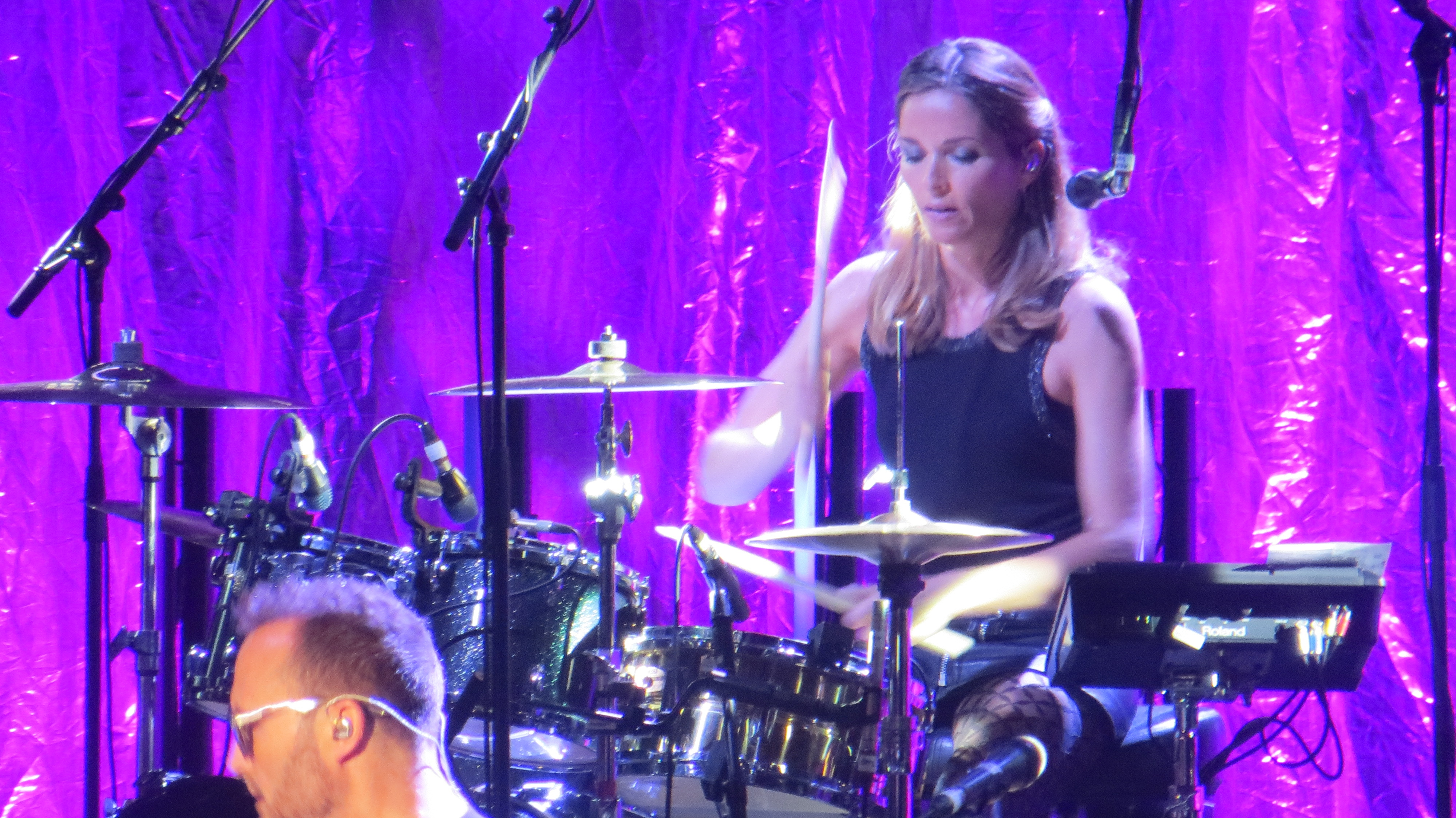 Caroline Corr in Vienna (Stadthalle, 2016)